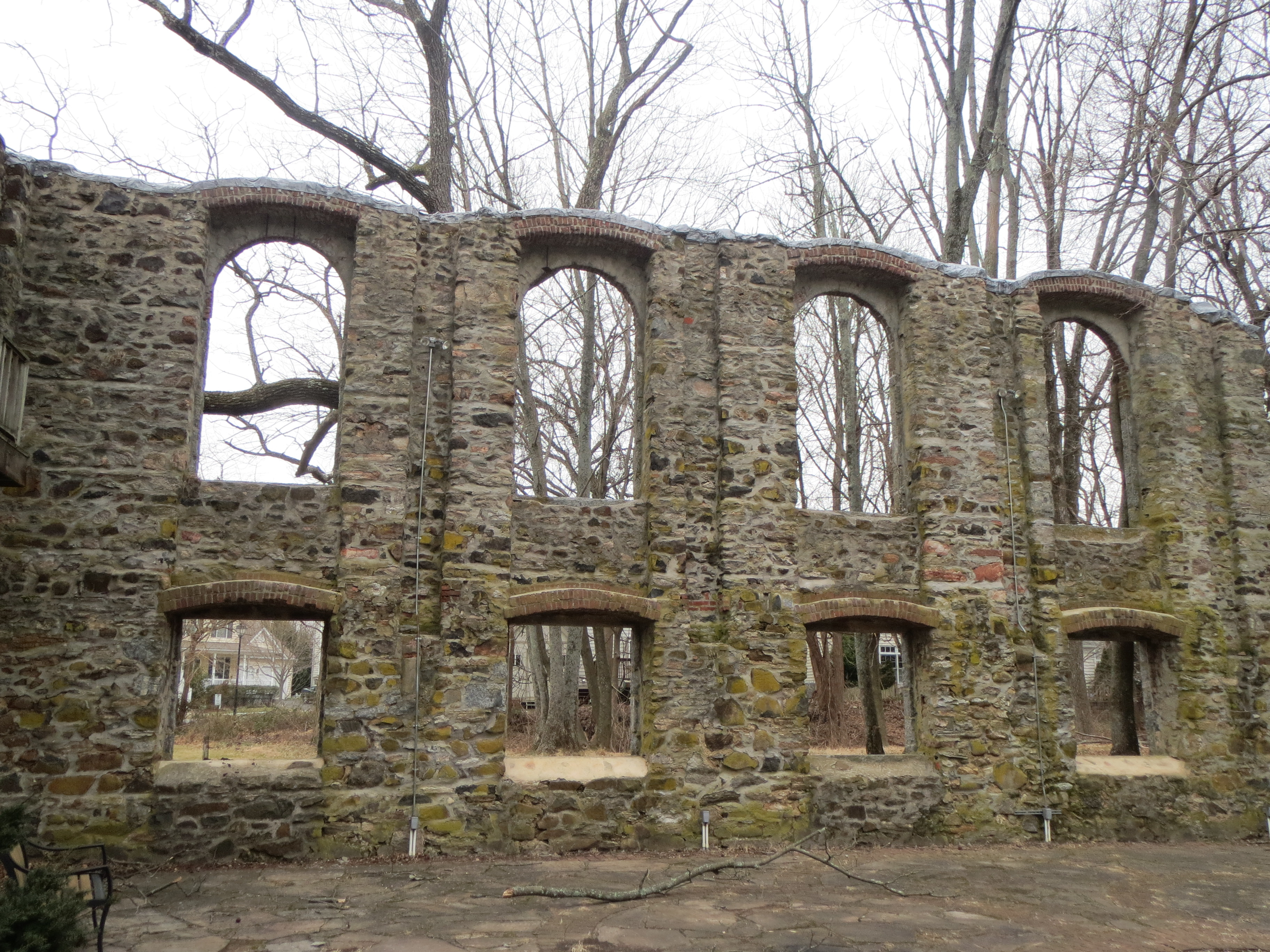 The ruins of St. Charles College. The building was built in 1831, but did not open until 1848. A fire destroyed the college on March 16, 1911. All that remains are the walls of the assembly room.